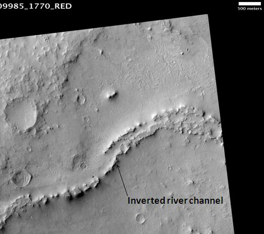 Miyamoto Crater, as seen by hirise. The location is 3 degrees south latitude and 352.1 degrees east longitude. Image was taken by the Mars Reconnaissance Orbiter's HiRISE. The HiRISE camera was built by Ball Aerospace and Technology orporation and is operated by the University of Arizona. Image courtesy NASA/JPL/University of Arizona.